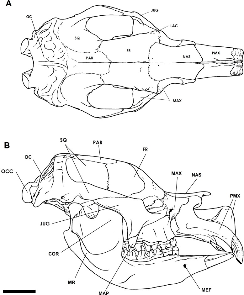 Dorsal view (A) and lateral view including the mandible (B). Scale bar = 10 cm. Abbreviations: COR, coronoid process; FR, frontal; JUG, jugal; LAC, lacrimal; MAP, masseteric process; MAX, maxillary; MEF, mental foramen; OC, occipital; OCC, occipital condyle; PAR, parietal; MR, masseteric ridge; PMX, premaxillary; SQ, squamosal. Illustration by P Trusler courtesy T Rich, Museum Victoria and the ARC.